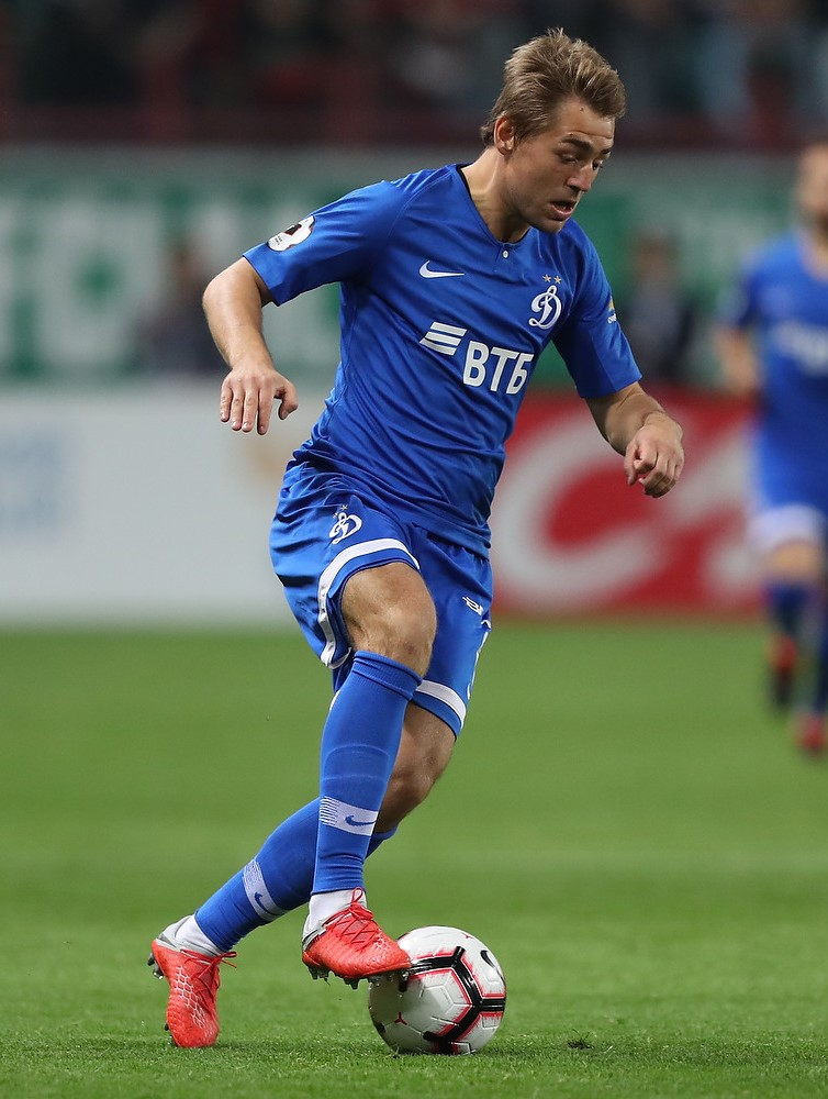 Kirill Panchenko